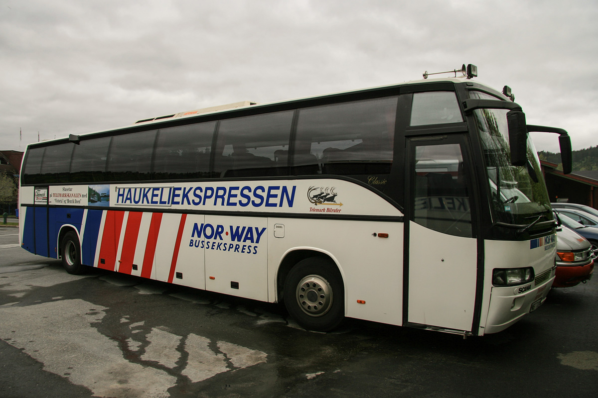 Scania Classic for Haukeliekspressen from Telemark Bilruter, seen in Åmot.